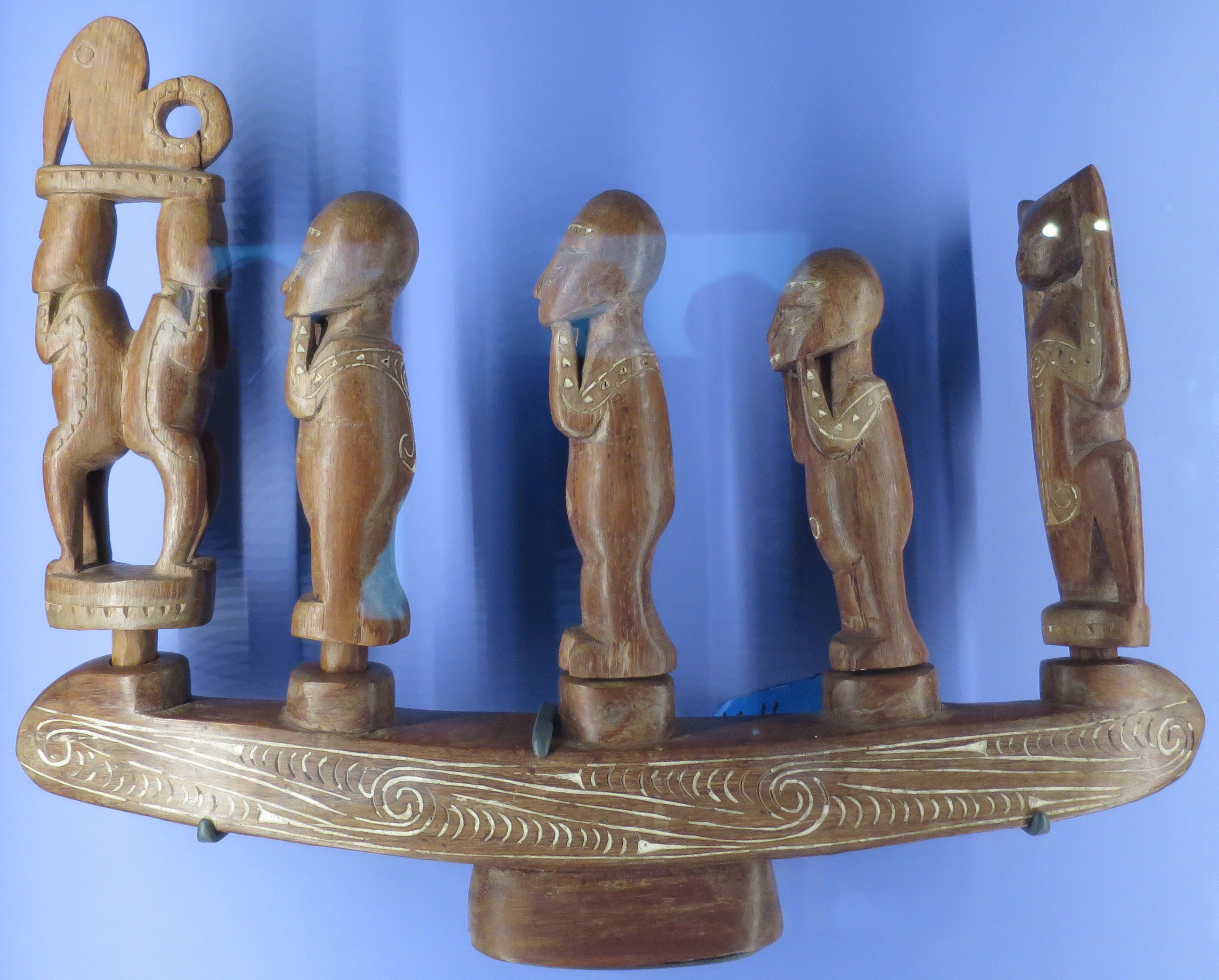 Soul boat, wood and white lime, Kiriwina, Trobriand Islands, Massim district, Paupa New Guinea, Bishop Museum, accession 1989.400.268